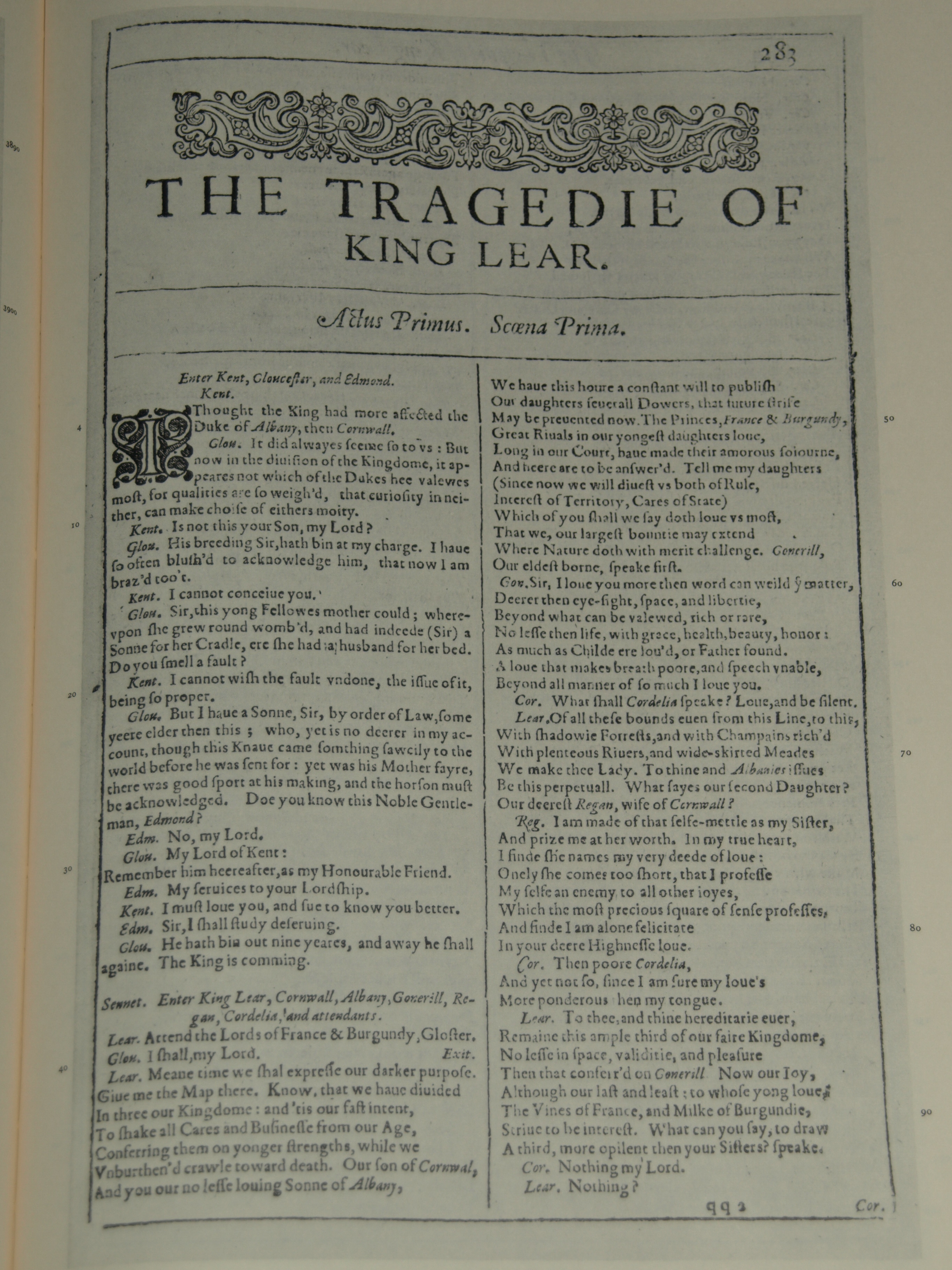 Photo of the first page of King Lear from a facsimile edition of the First Folio of Shakespeare's plays, published in 1623